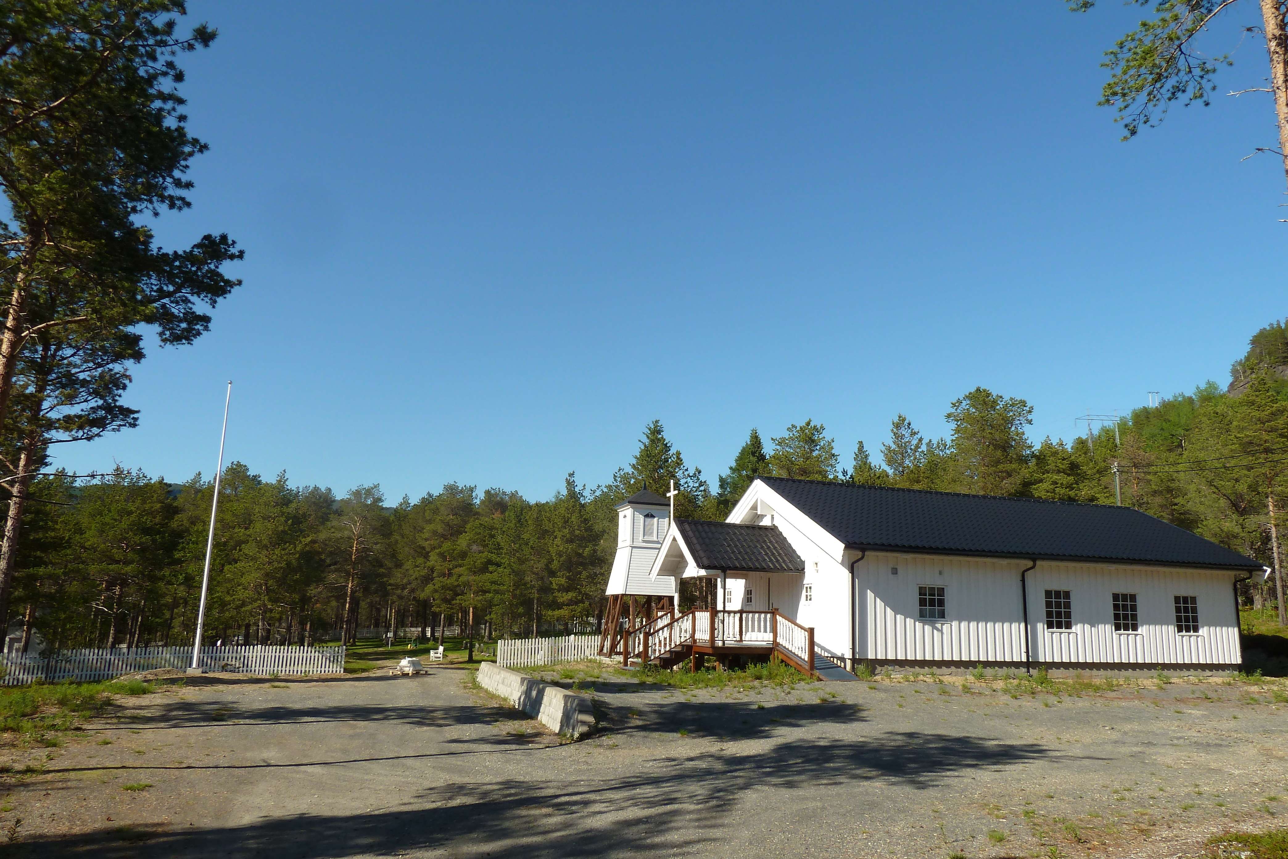 Hergot Chappel in Narvik, Nordland.